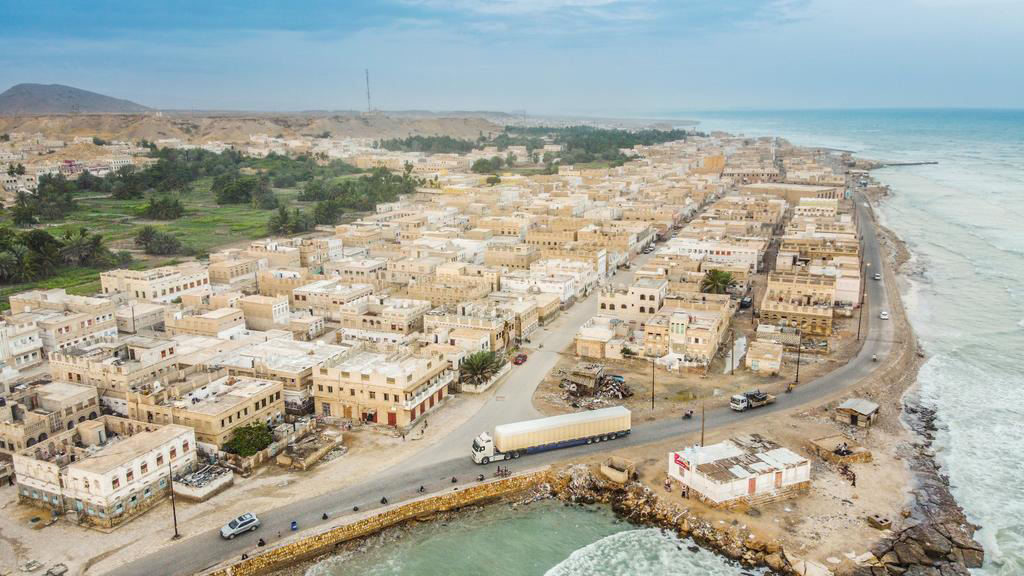 AlHami Coastal town in Hadramout Yemen